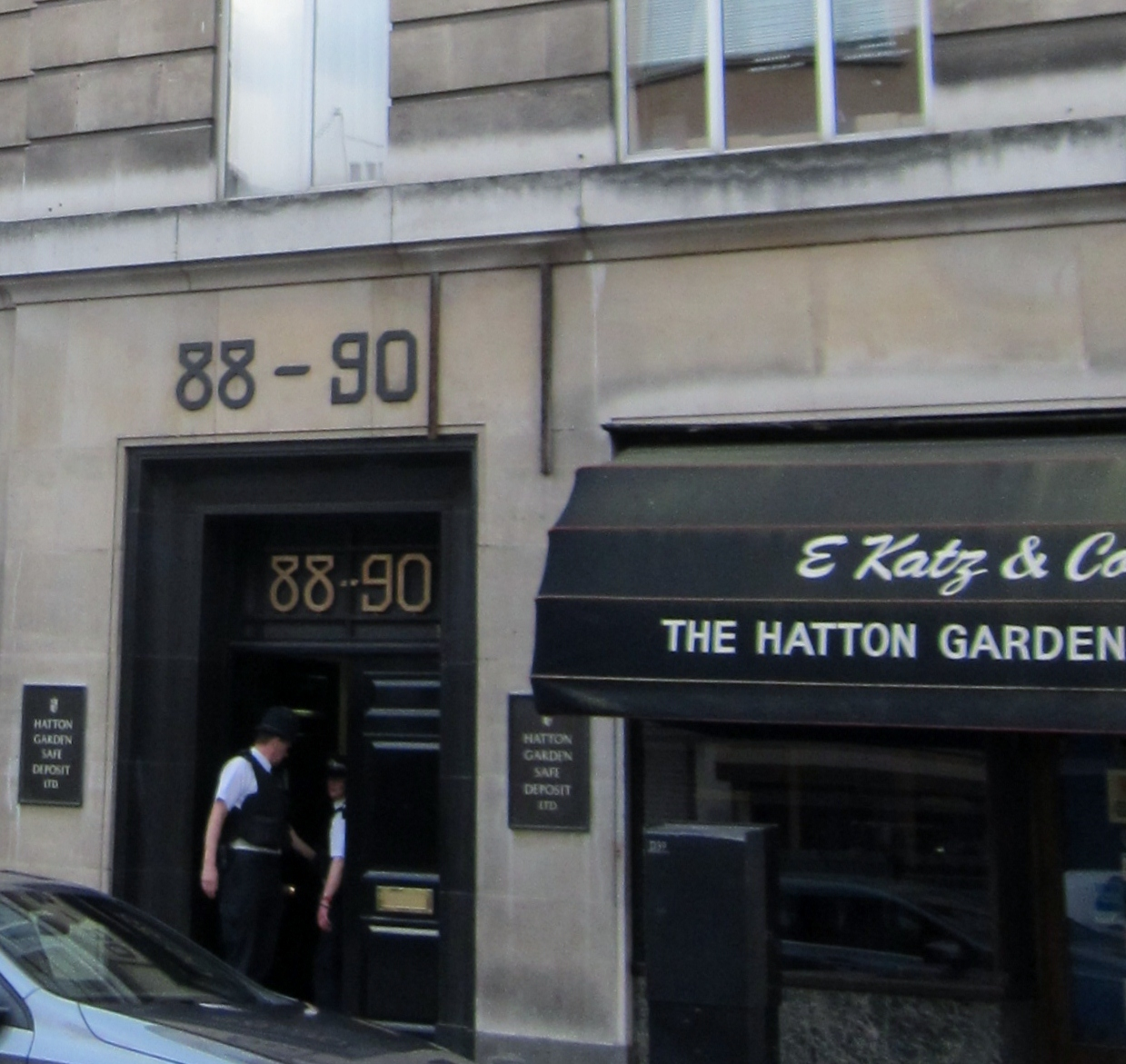 Hatton Garden Safe Deposit Ltd entrance. See 88-90 Hatton Garden for more details. RHaworth was on site at apparently the same time and saw no coppers. It is suspected that this photo was actually taken at 18:33 BST.